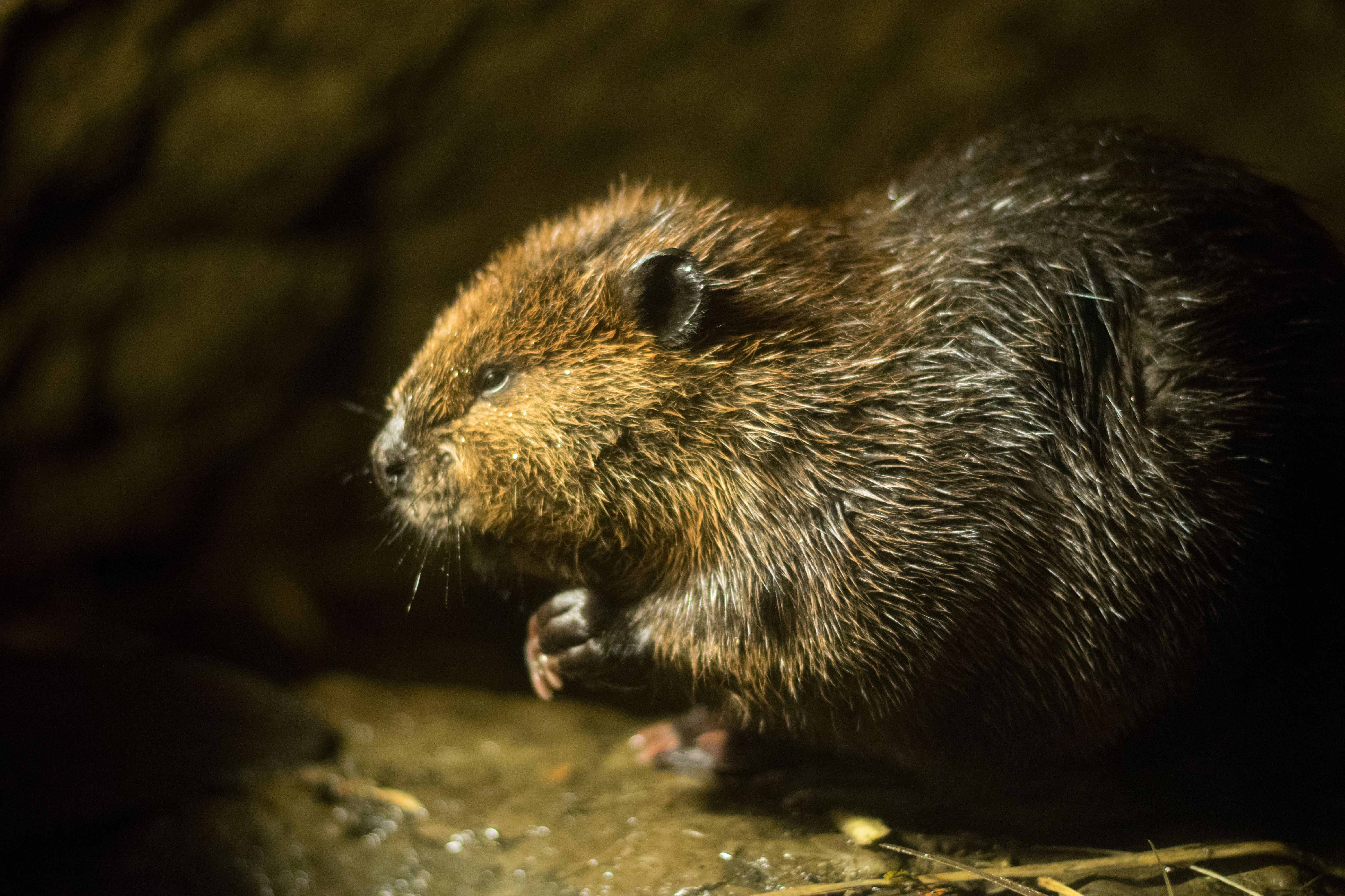 A North American beaver at the Wild Zoo of St-Félicien (Quebec, Canada).